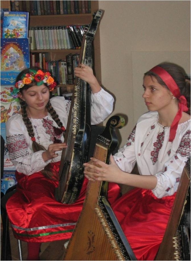 Виступ бандуристок школи №3